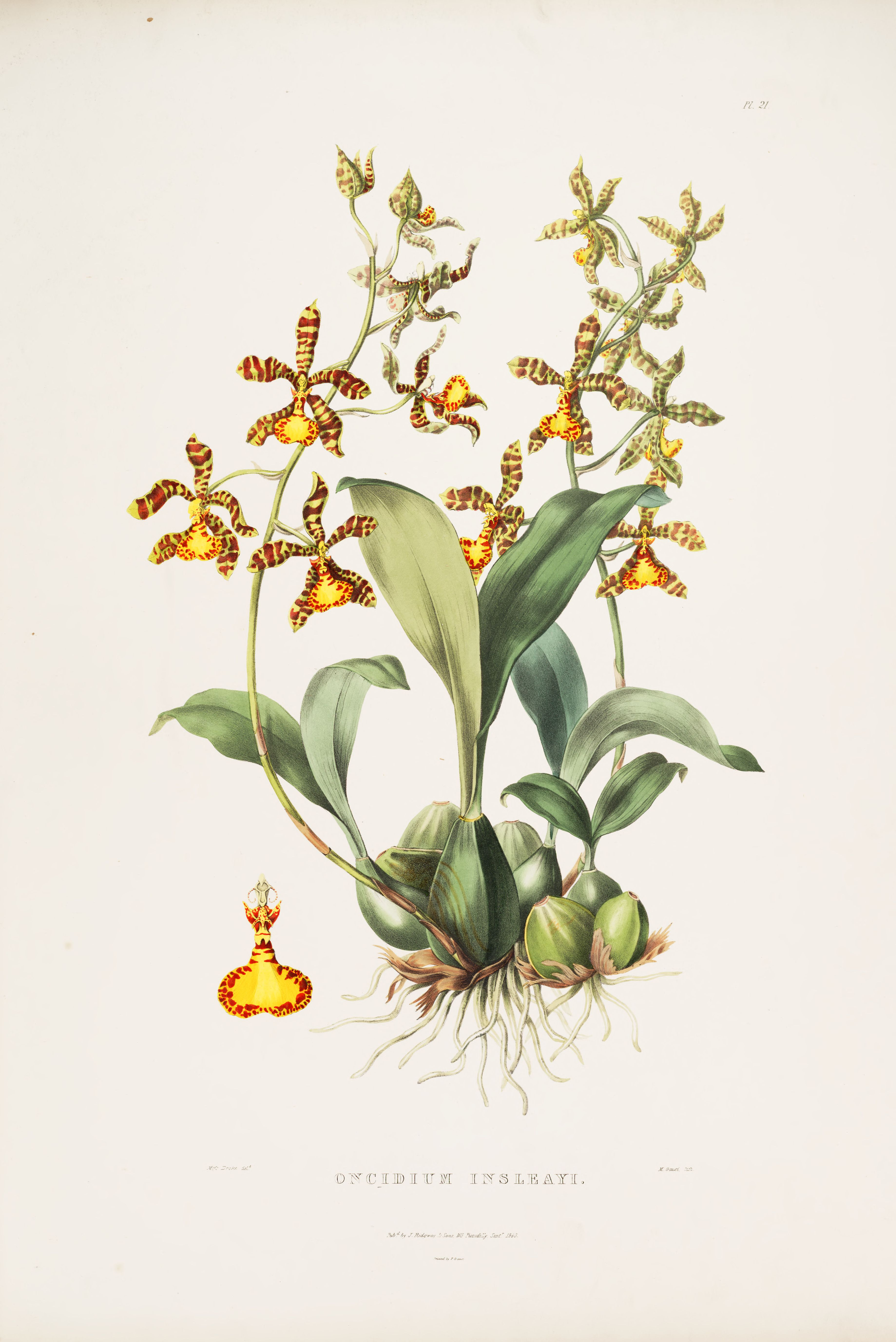 Illustration of Rossioglossum insleayi (as syn. Oncidium insleayi)